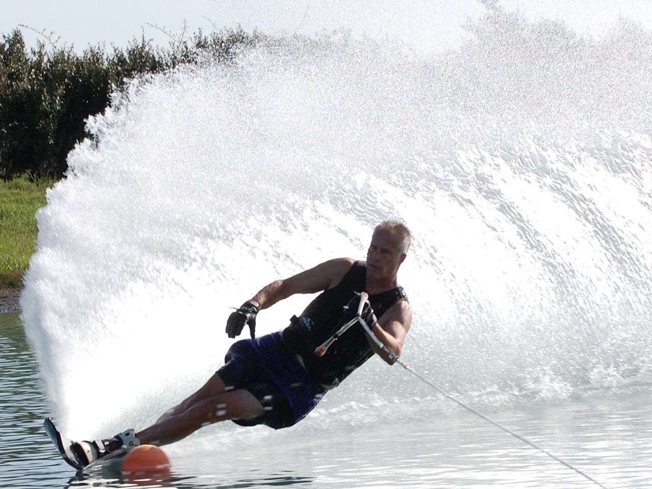 Slalom